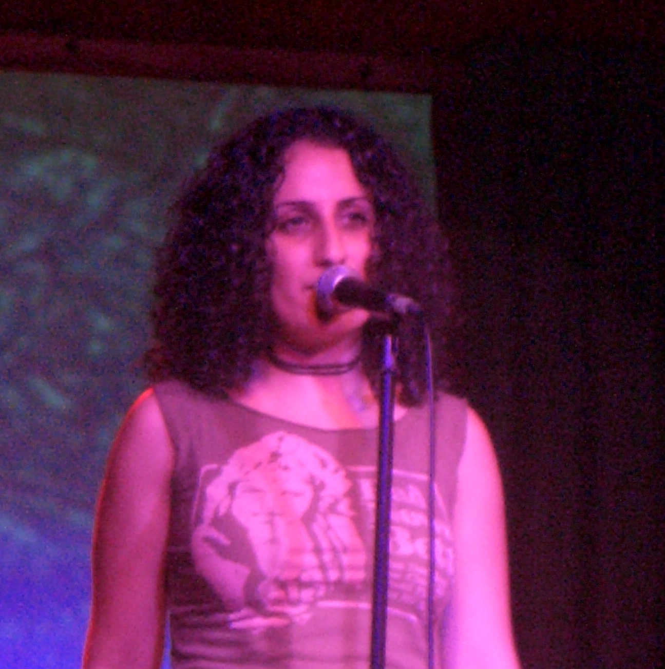 Singer and podcast host Chemda Khalili of Keith and the Girl fame singing as part of Canadian ambient electronic music project Conjure One at a show in 2005.